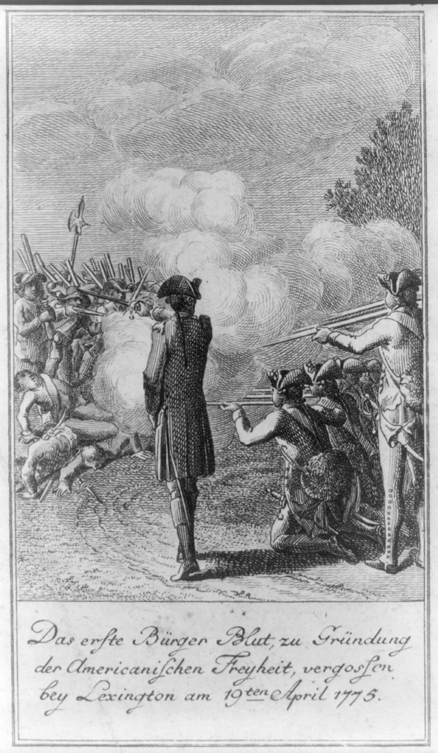 The first citizen blood, to establish American freedom, shed at Lexington on April 19, 1775. Engraving shows British troops firing into mass of American militiamen at the battle of Lexington. CREATED/PUBLISHED: 1784. ARTIST: Chodowiecki, Daniel, 1726-1801. ENGRAVER: Berger, Daniel, 1744-1824. REPOSITORY: Library of Congress Prints and Photographs Division Washington, D.C.